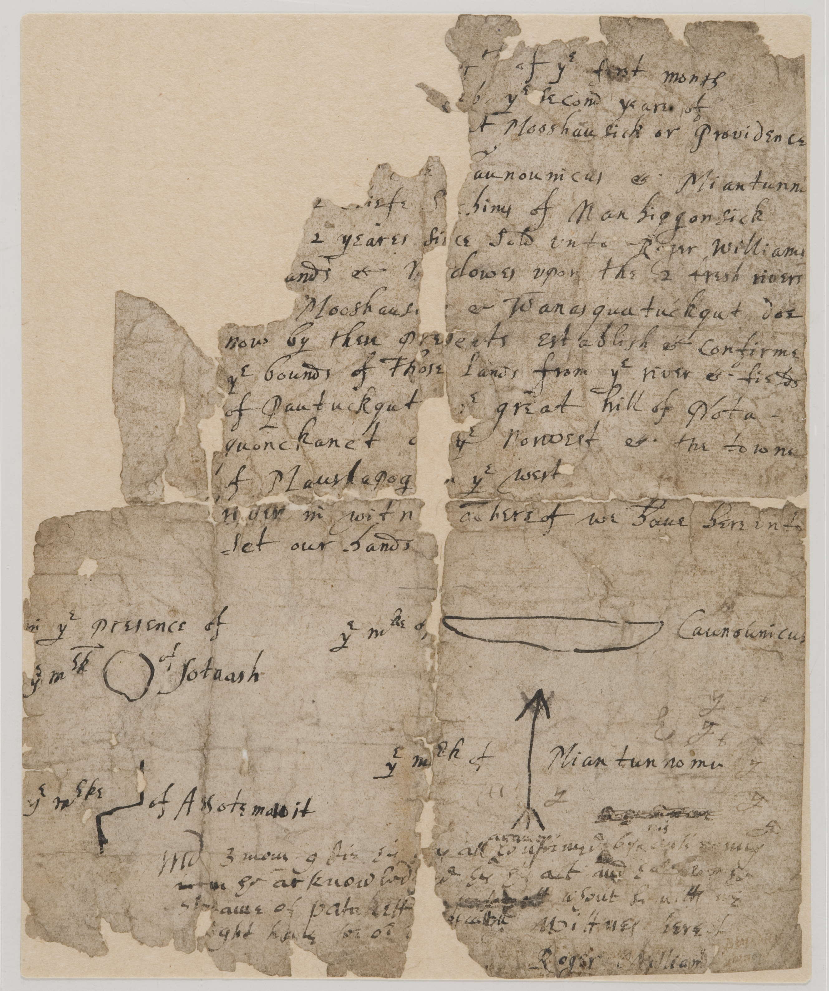 Deed to Providence Rhode Island received by Roger Williams in 1636, printed in: Joseph Dillaway, "History of the Pilgrims and Puritans: Their Ancestry and Descendants"(Century History Co., New York: 1922)